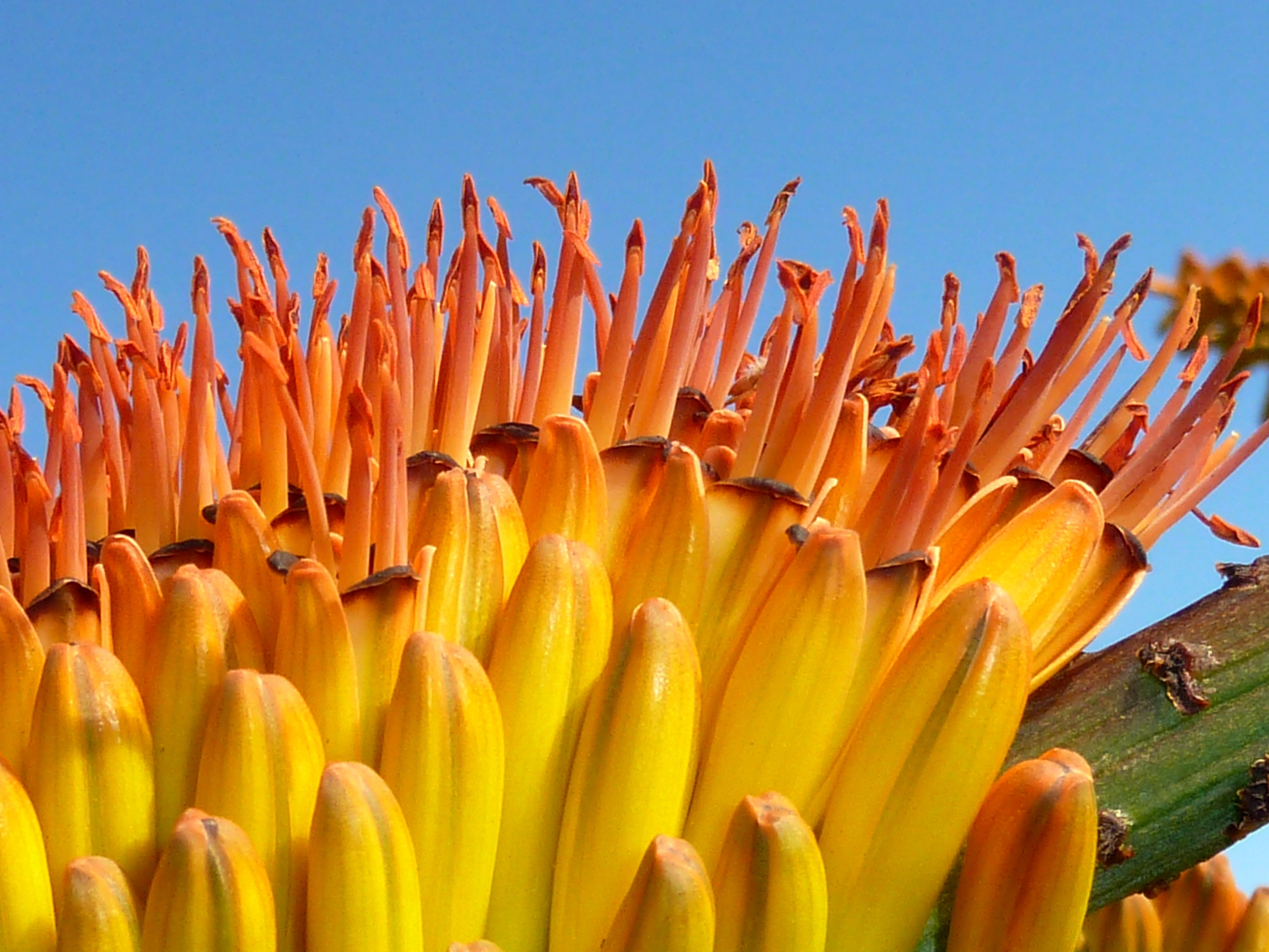 Flowers of a Mountain aloe in grassland near Melmoth, northern KZN